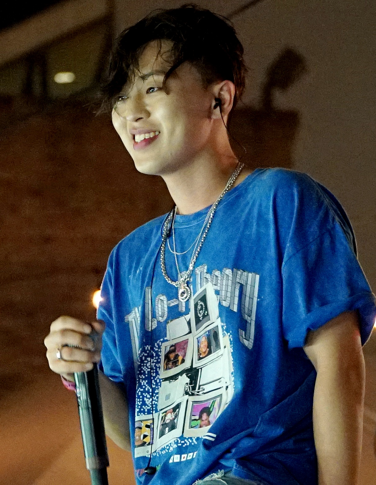 DPR Live at Korea Spotlight Showcase SXSW 2018